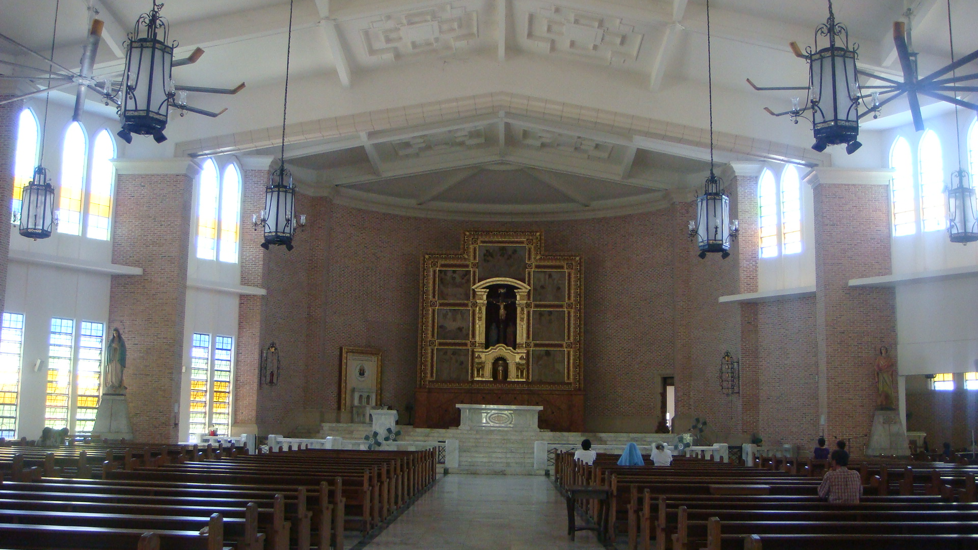 St. John the Evangelist Metropolitan Cathedral (Zamora st., Dagupan City, Pangasinan)